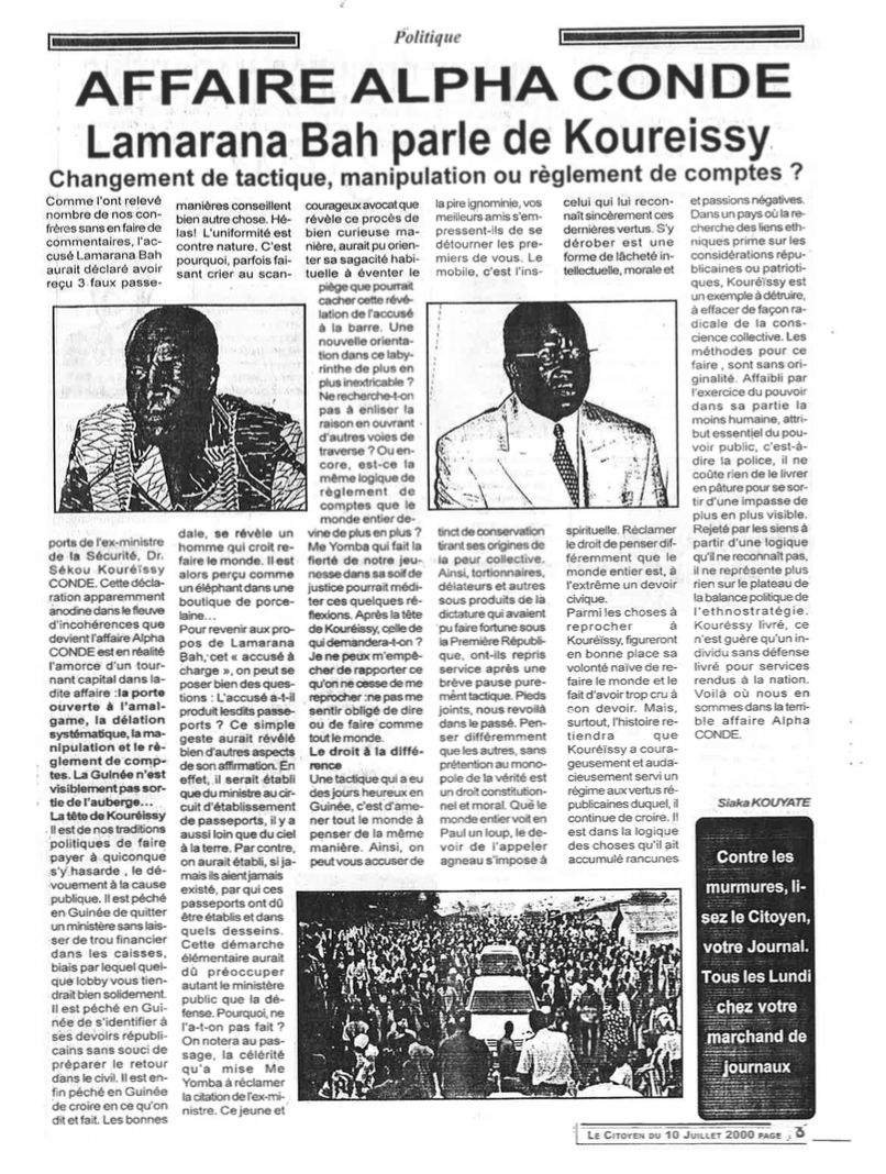 Picture of a guinean article on the "Affaire Alpha Condé"